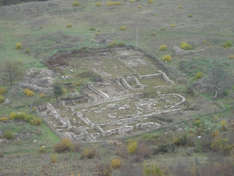 Archaeological site, supposedly of ancient city Tranupara, near Konjuh, Macedonia